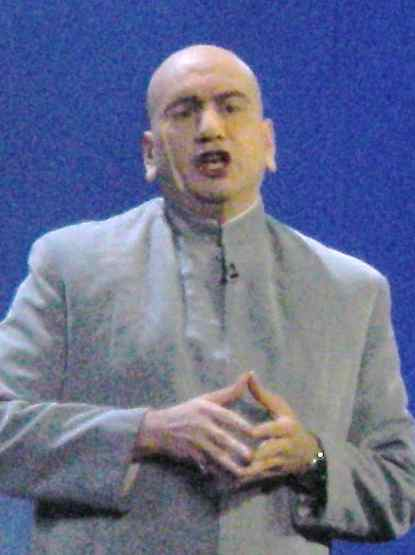 A Dr. Evil impersonator stands with Michael Dell. Image taken at a Dell presentation.